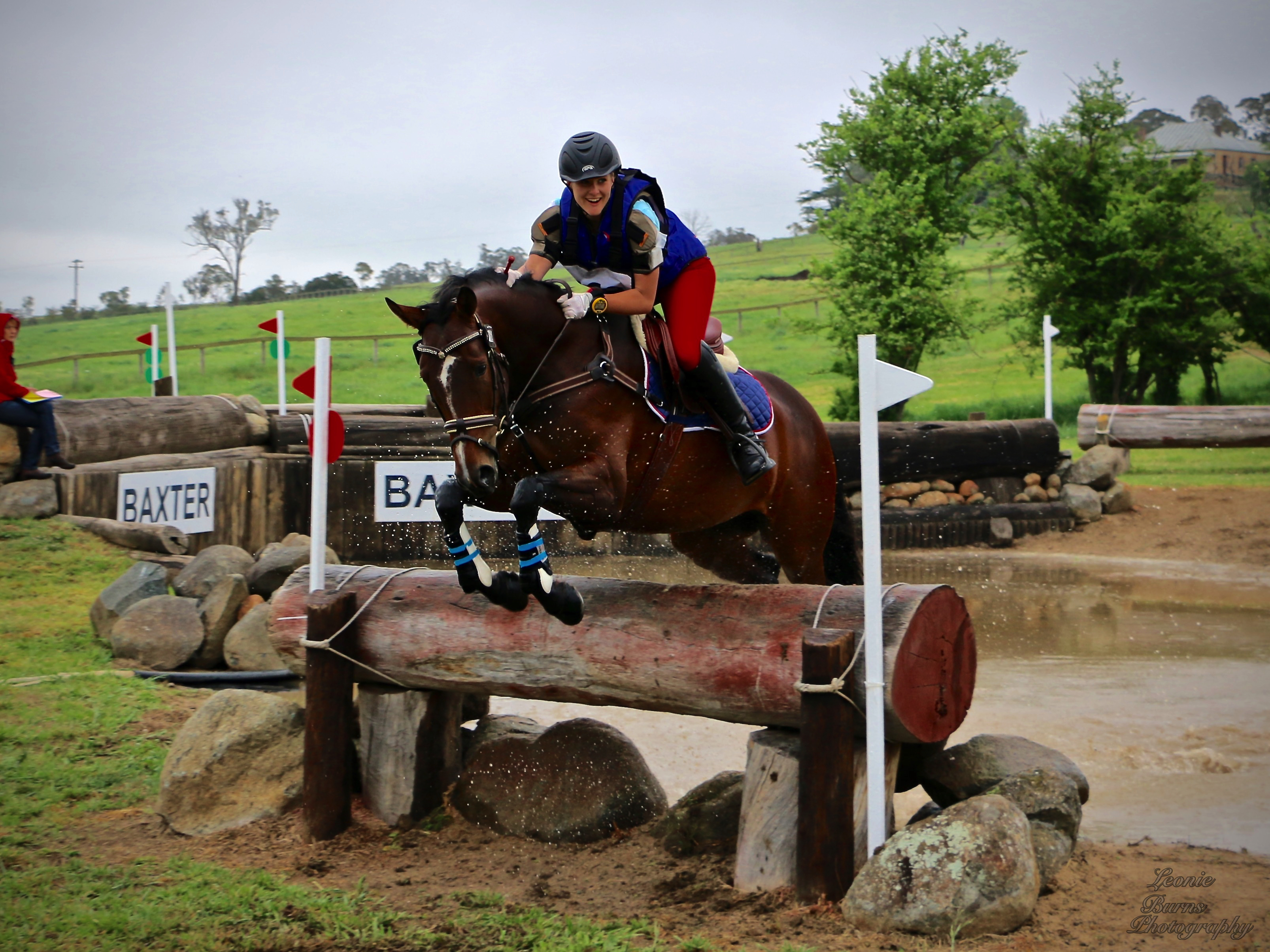 Blackall Park Rap at Lynton horse trials Australia